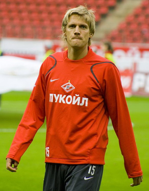 Radoslav Kováč